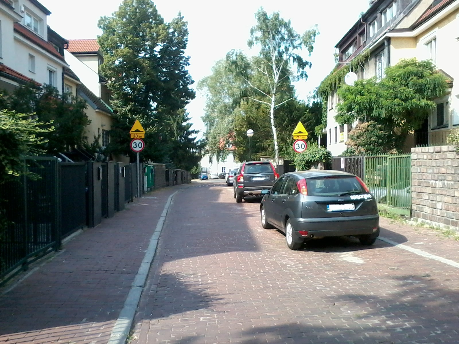 Rajców street in Warsaw